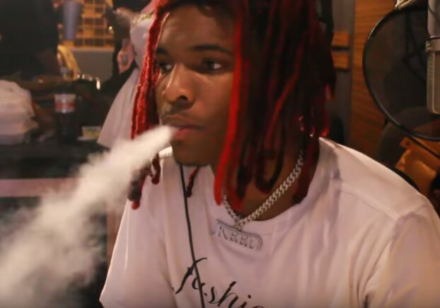 Lil Keed recording in a studio at Atlanta